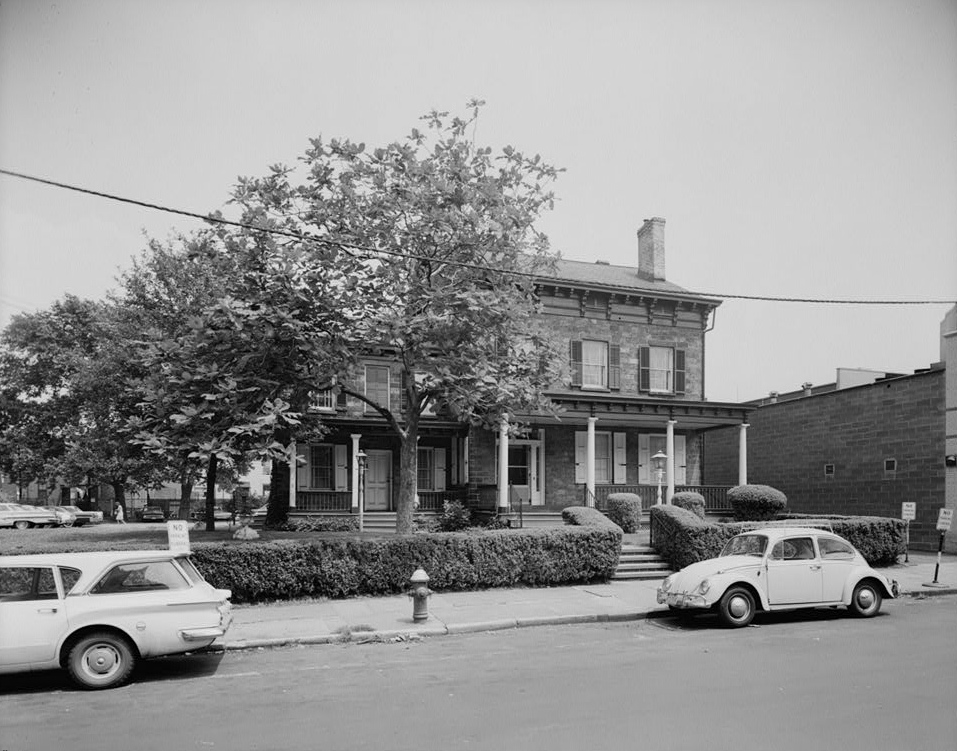 Van Wagenen House, 298 Academy Street, Jersey City, Hudson County, NJ